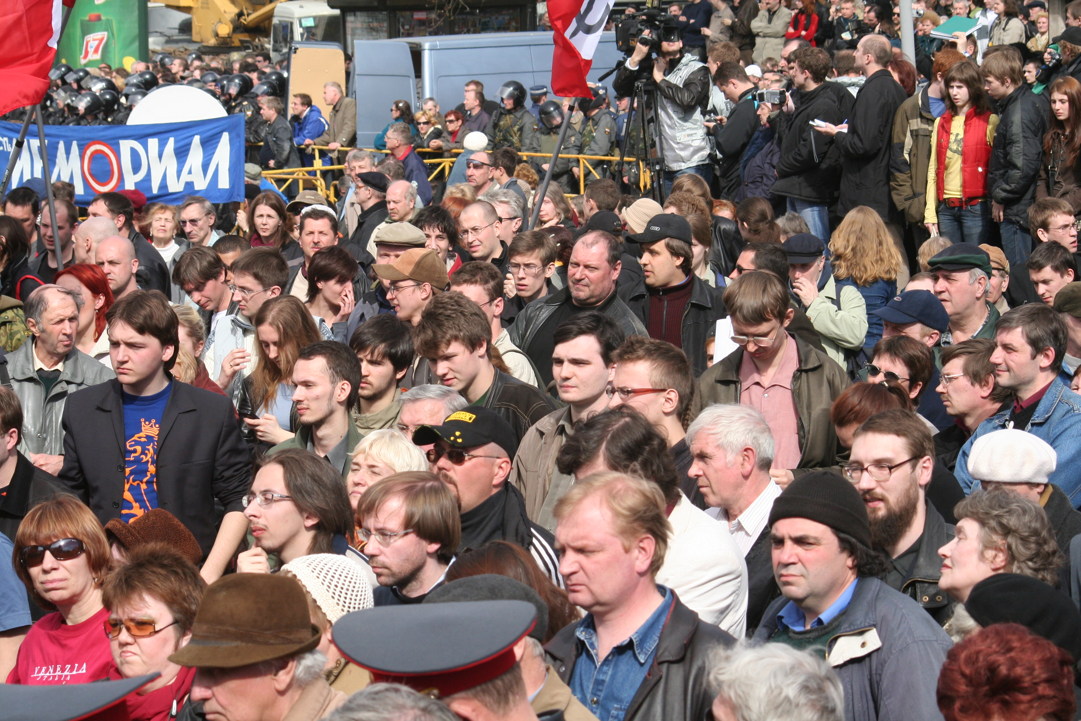 TYuZ, April 15, 2007, Marsh Nesoglasnyx, SPb, Russia; close-up